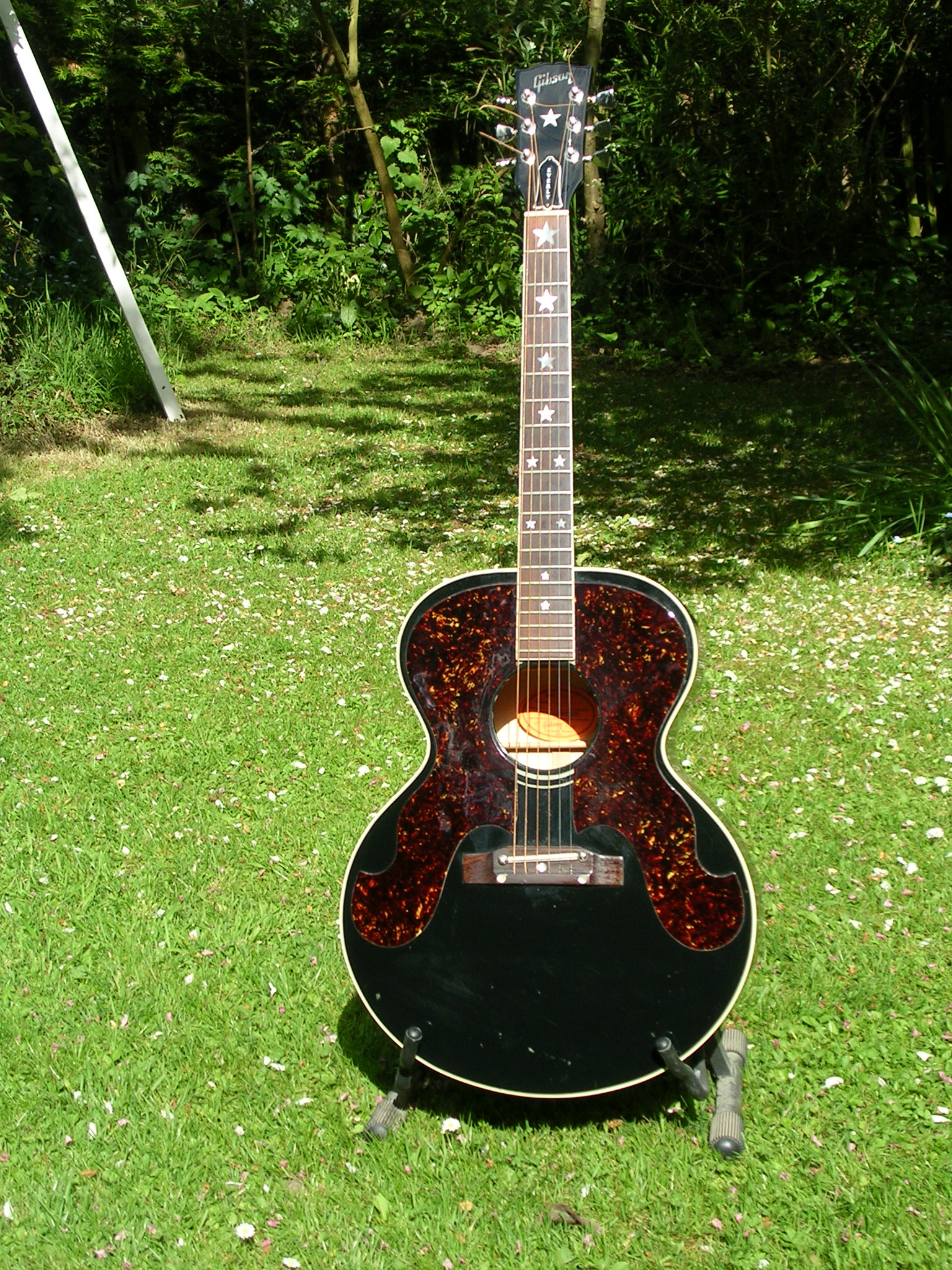 Gibson Everly Guitar originally produced as Gibson Everly Brothers (1962-1972?), reissued as "J-180" in 1984, renamed to "Everly Brothers" in 1992, renamed again to "Everly" in 1994 and finally renamed to "J-180", again